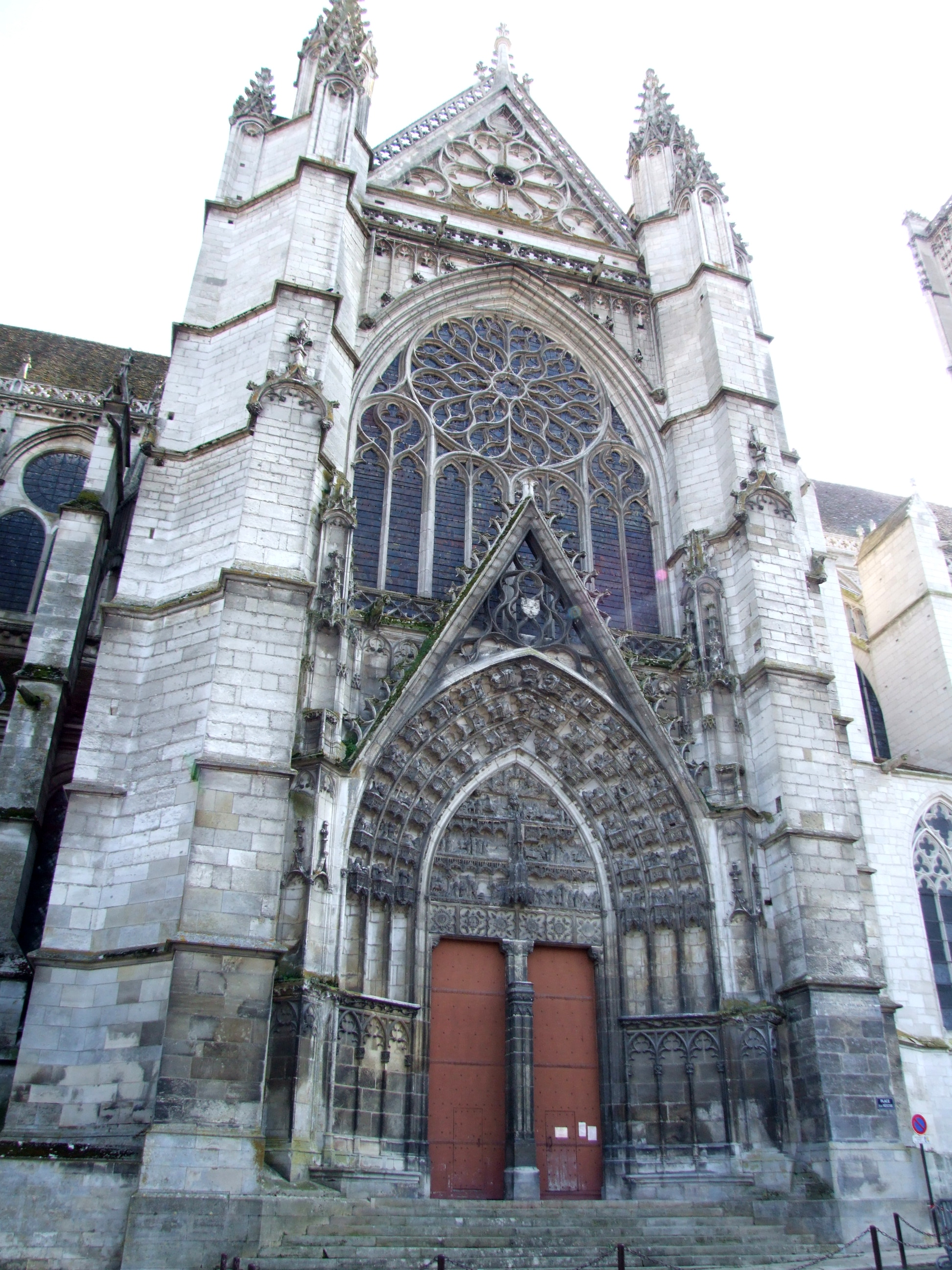 Saint-Etienne Cathedral, Auxerre, Burgundy, FRANCE